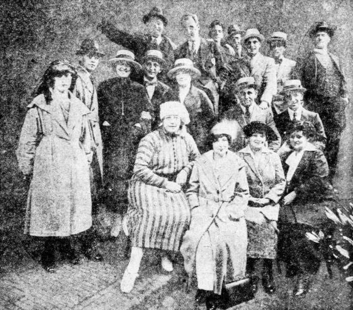 Cast and crew at 400th performance